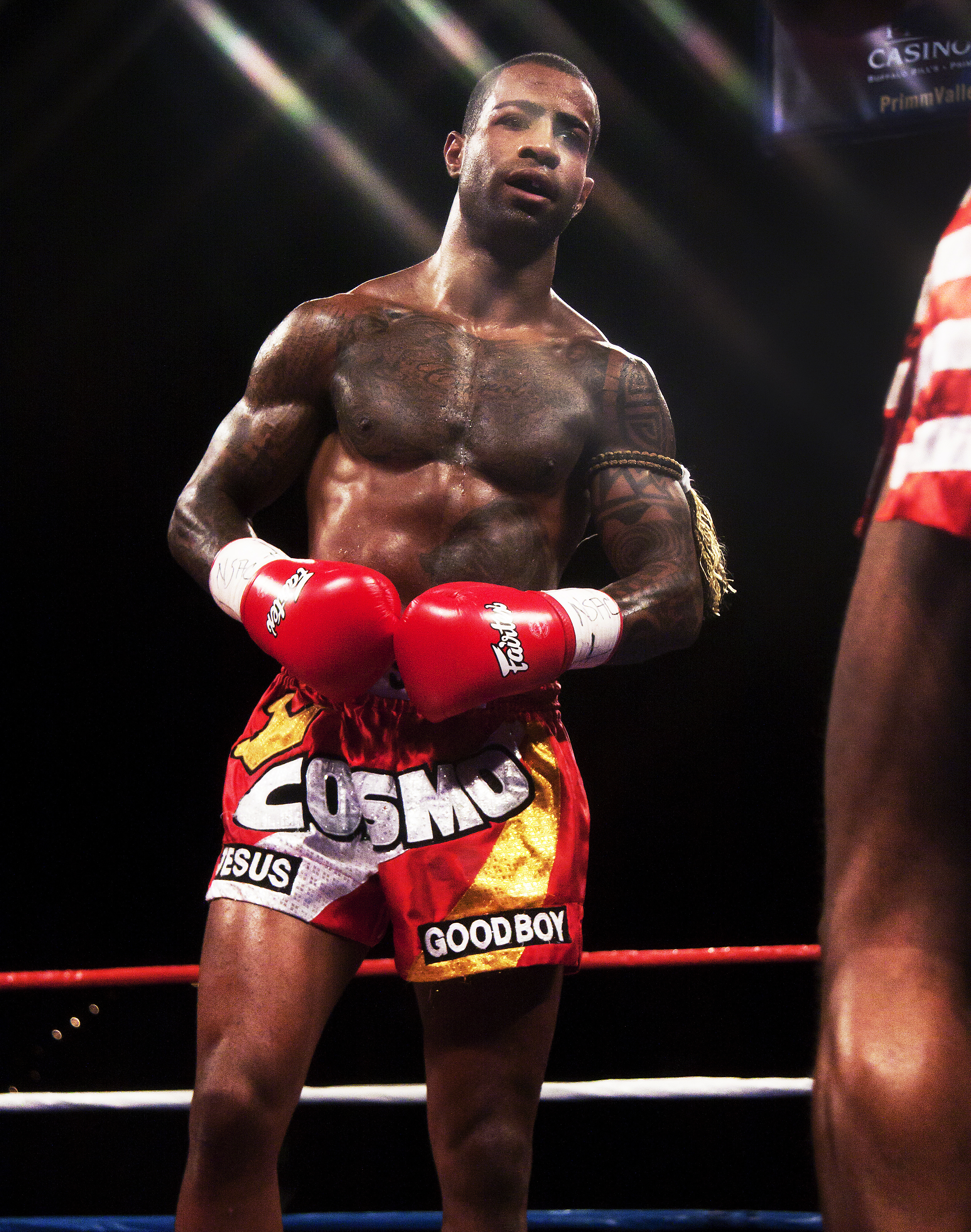 Cosmo Alexandre @ Battle in the Desert II, Buffalo Bills Casino, Primm, NV